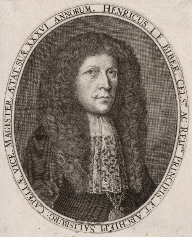 Heinrich Ignaz Franz von Biber (1644–1704)